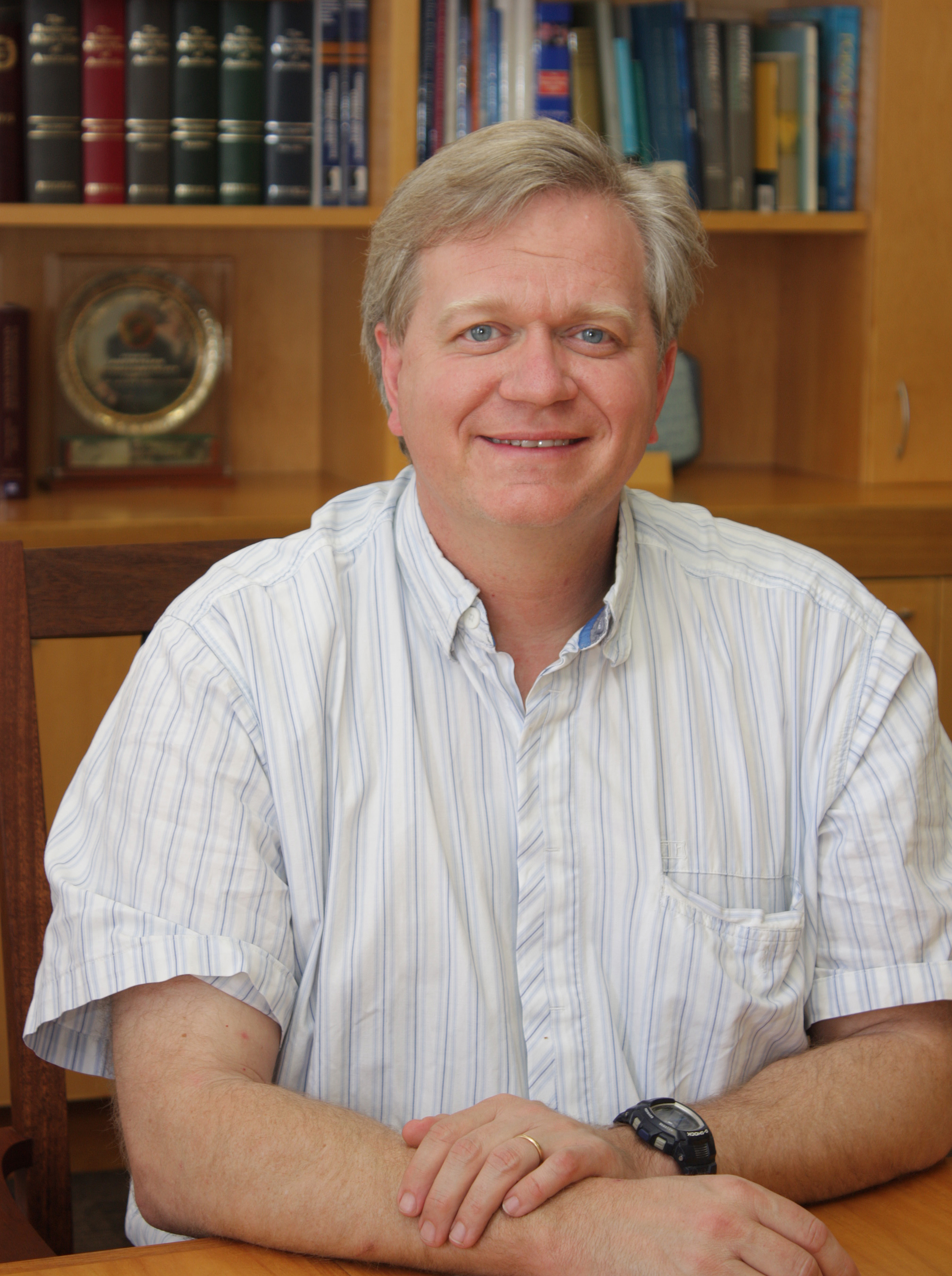 portrait of Brian Schmidt astronomer